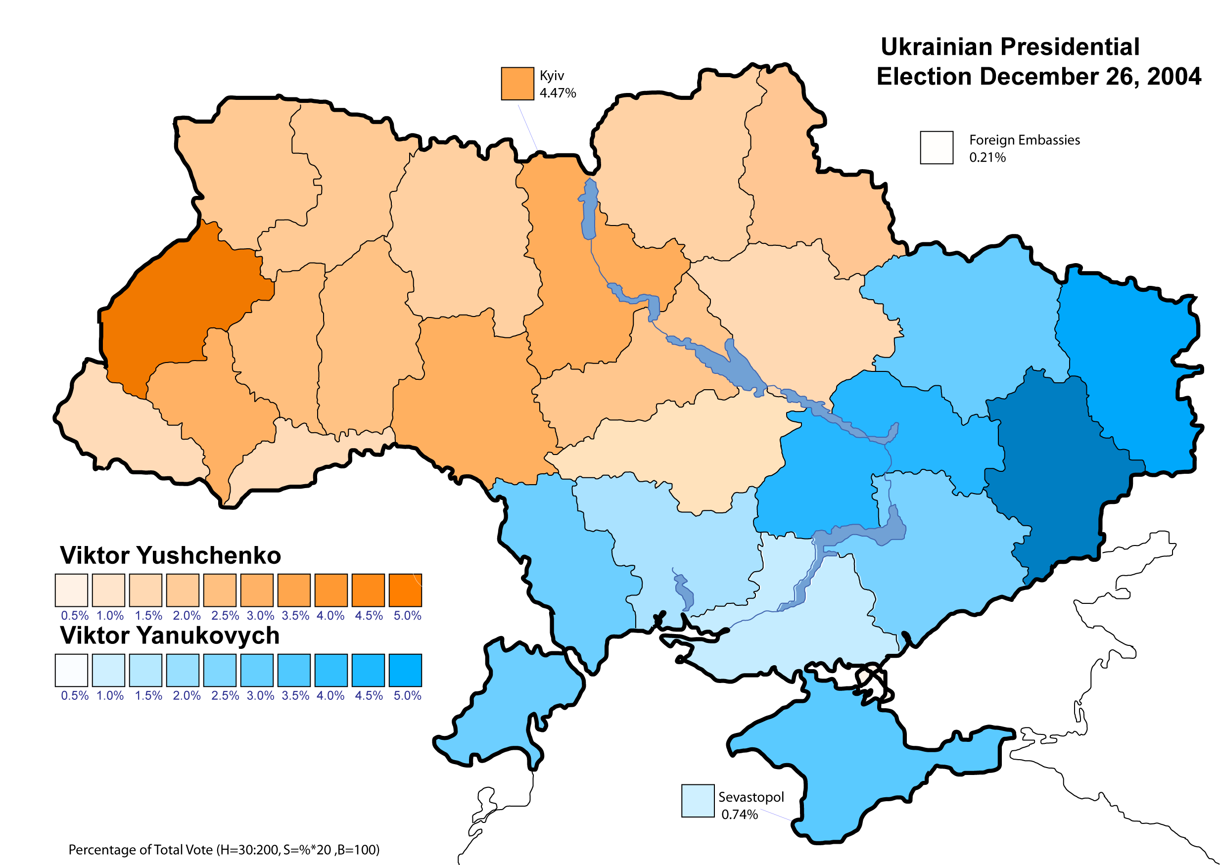 Ukrainian Presidential Election October 2004 - Highest vote (Final Round)